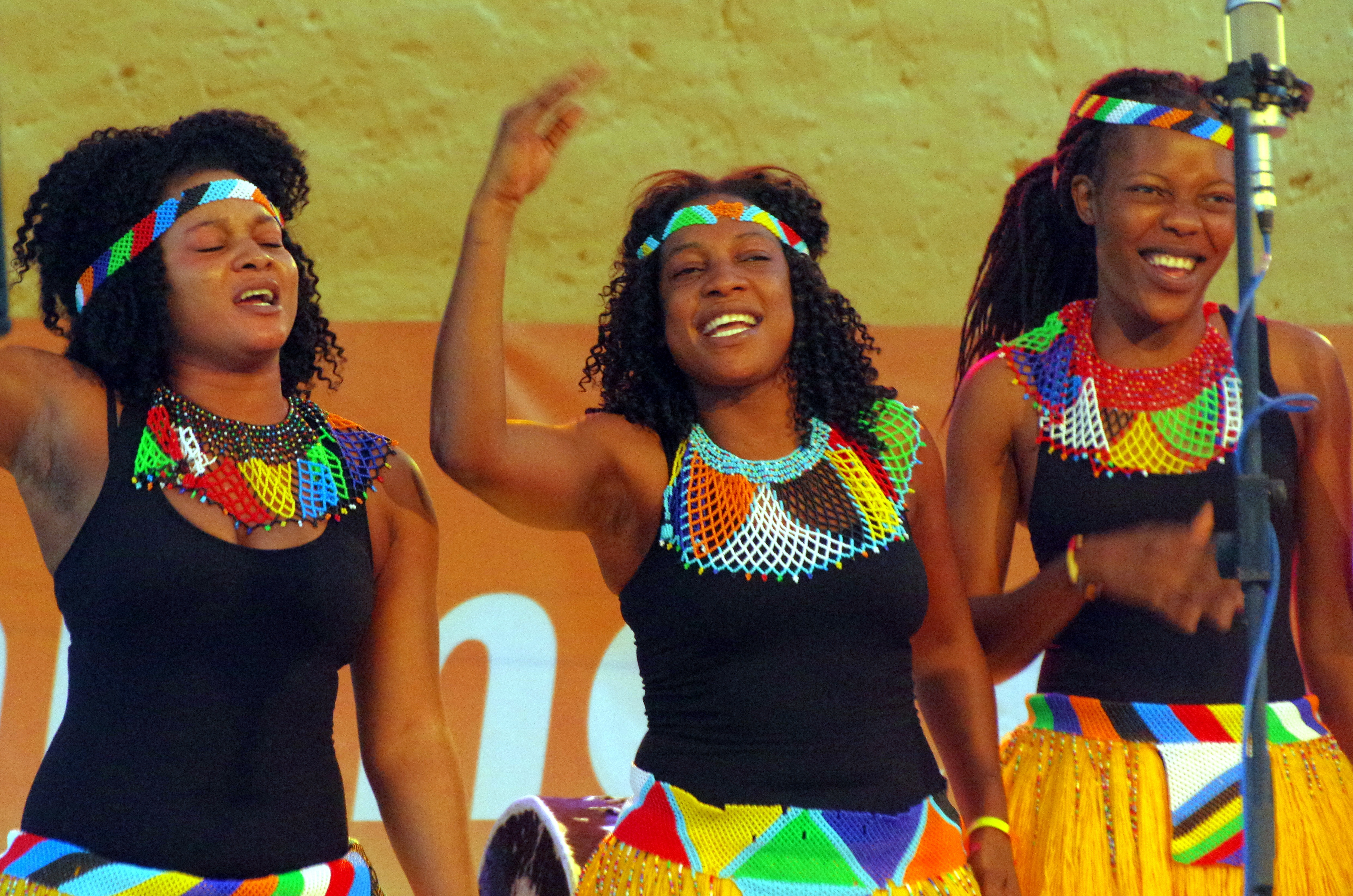 3.8.16 Iyasa at Borovany